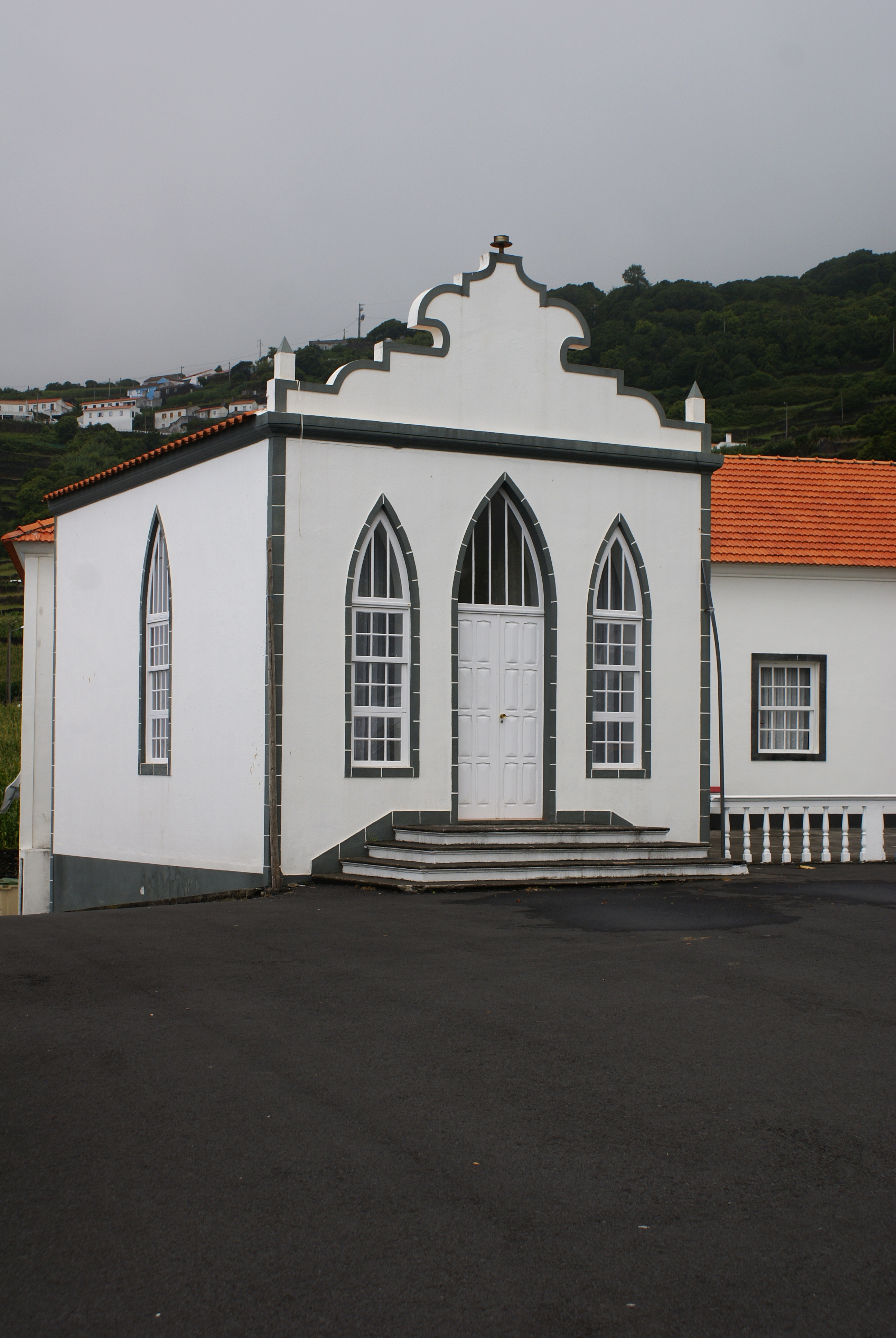 Império do Espírito santo das Pontas Negras, Lajes do Pico, ilha do Pico, Açores, Portugal